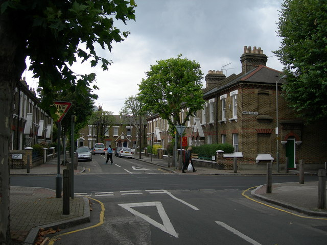 Shaftesbury Estate, Battersea. Taken at the junction of Eland Road and Sabine Road, SW11. The estate has many roads very similar to this, and here is a link that features a recent newspaper article about the area. and another link to a nearby photo The houses here were built as affordable social housing but now cost well over £300,000 each!